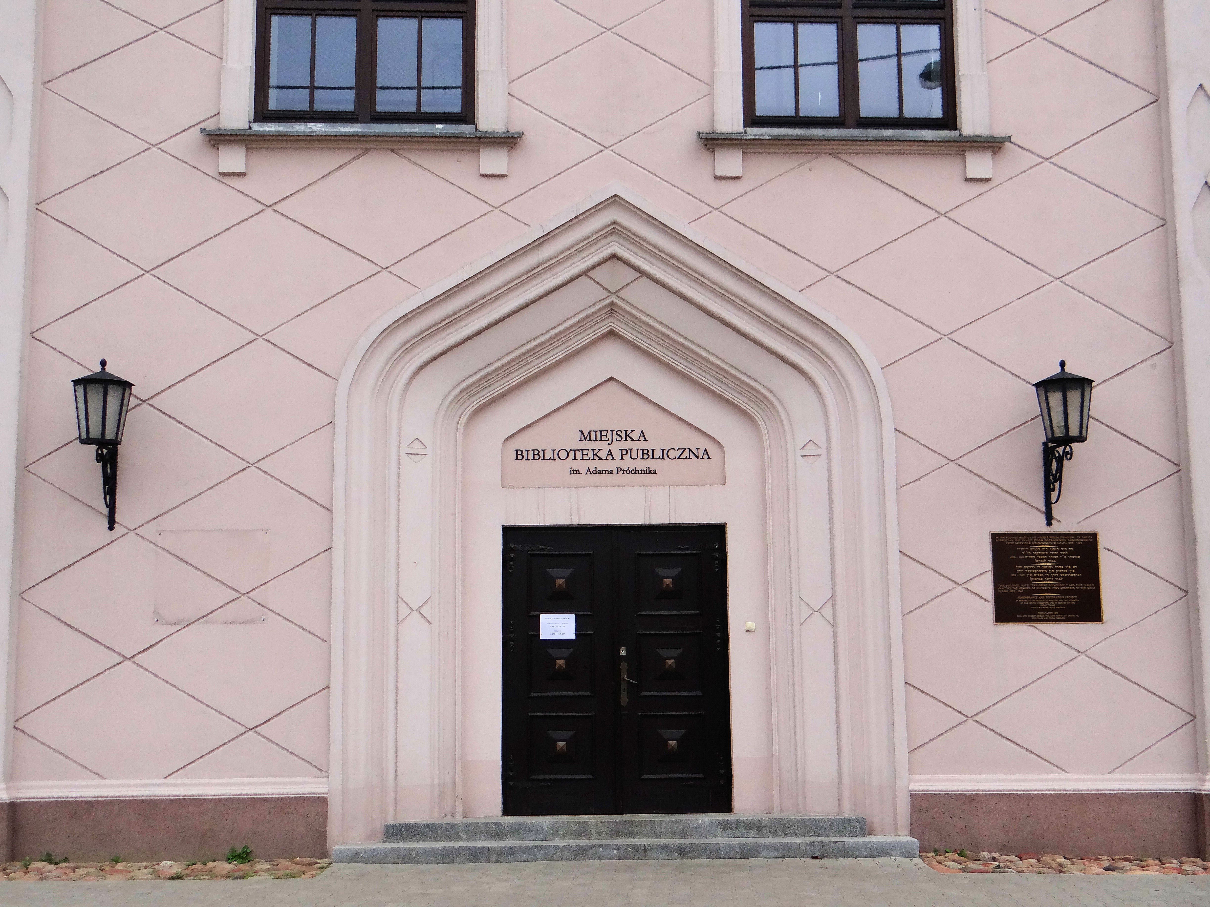 Great Synagogue in Piotrków Trybunalski